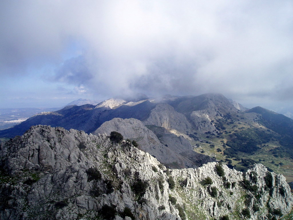 Peña Negra, Málaga, Spain